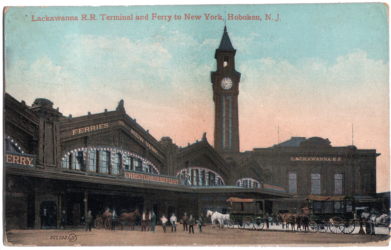 Hoboken Terminal, New Jersey ca. 1910